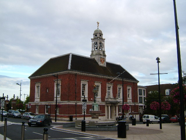 Braintree Town Hall Centre, Fairfield Road, Braintree. Given as a gift to the town by the Courtauld family, this Grade II* listed building with its rich wood-panelled interior, houses the Tourist Information Centre and Art Gallery.